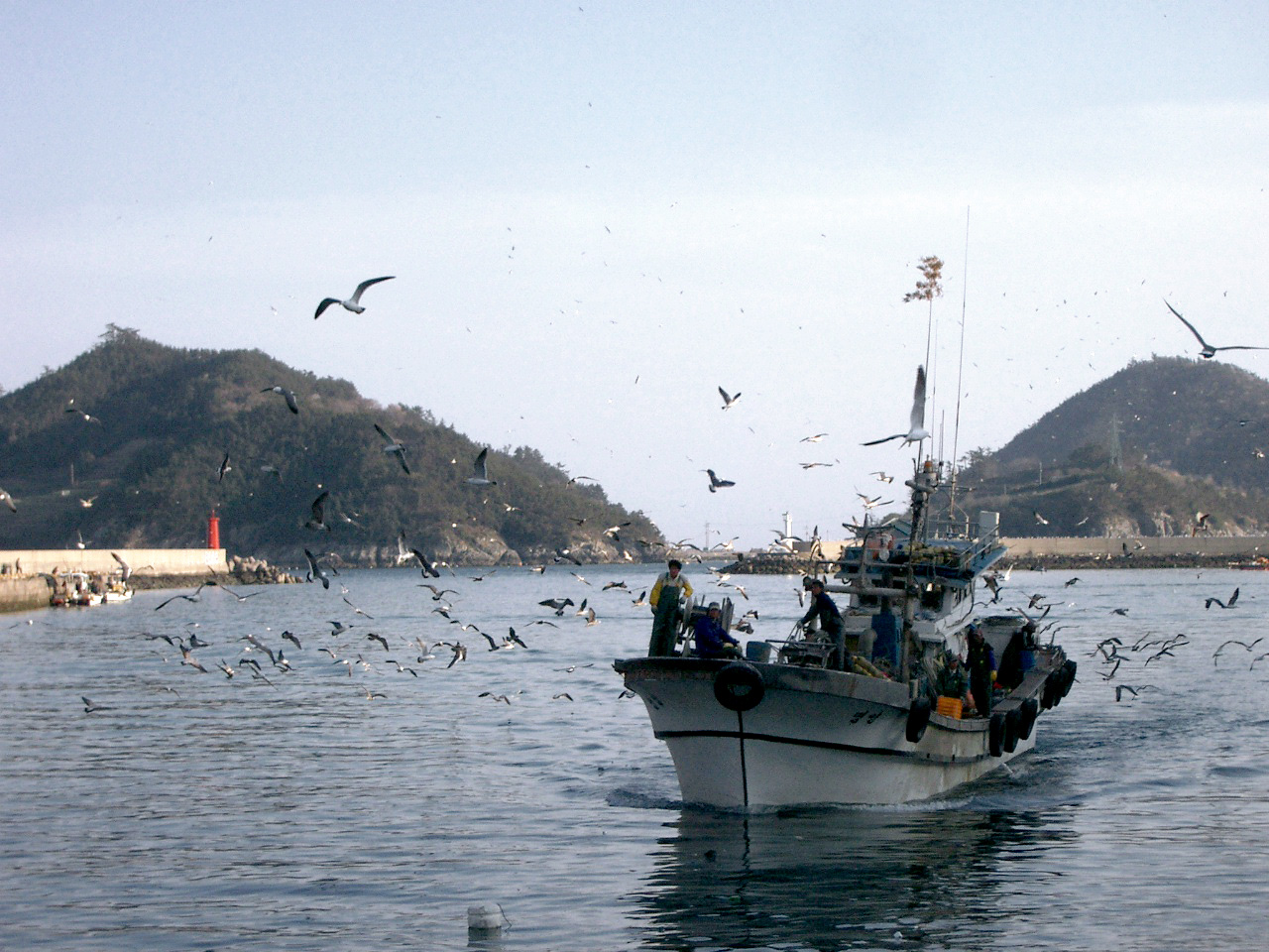 Haenam, Jeollanam-do South Korea